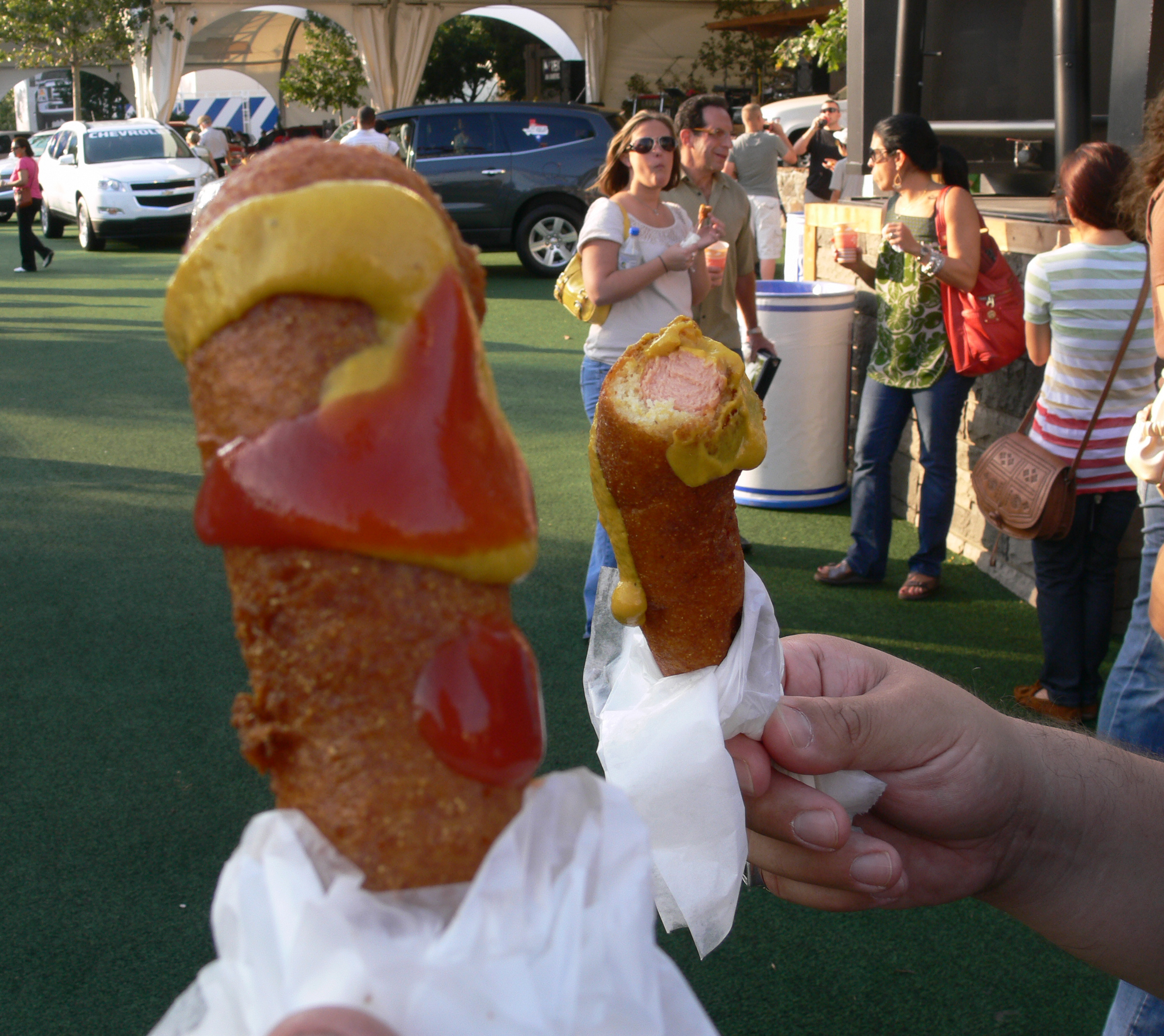 Original „Corny Dogs“ at State Fair of Texas 2008, Dallas, Texas